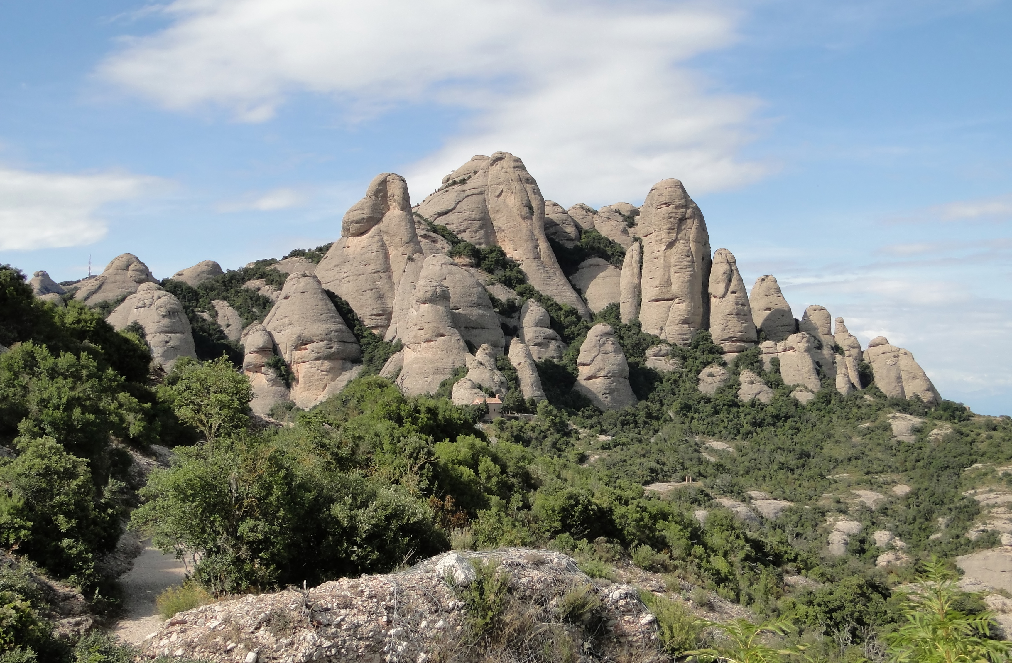 Part of Montserrat mountain with hermitage of Sant Benet in the center of the picture, Catalonia, Spain